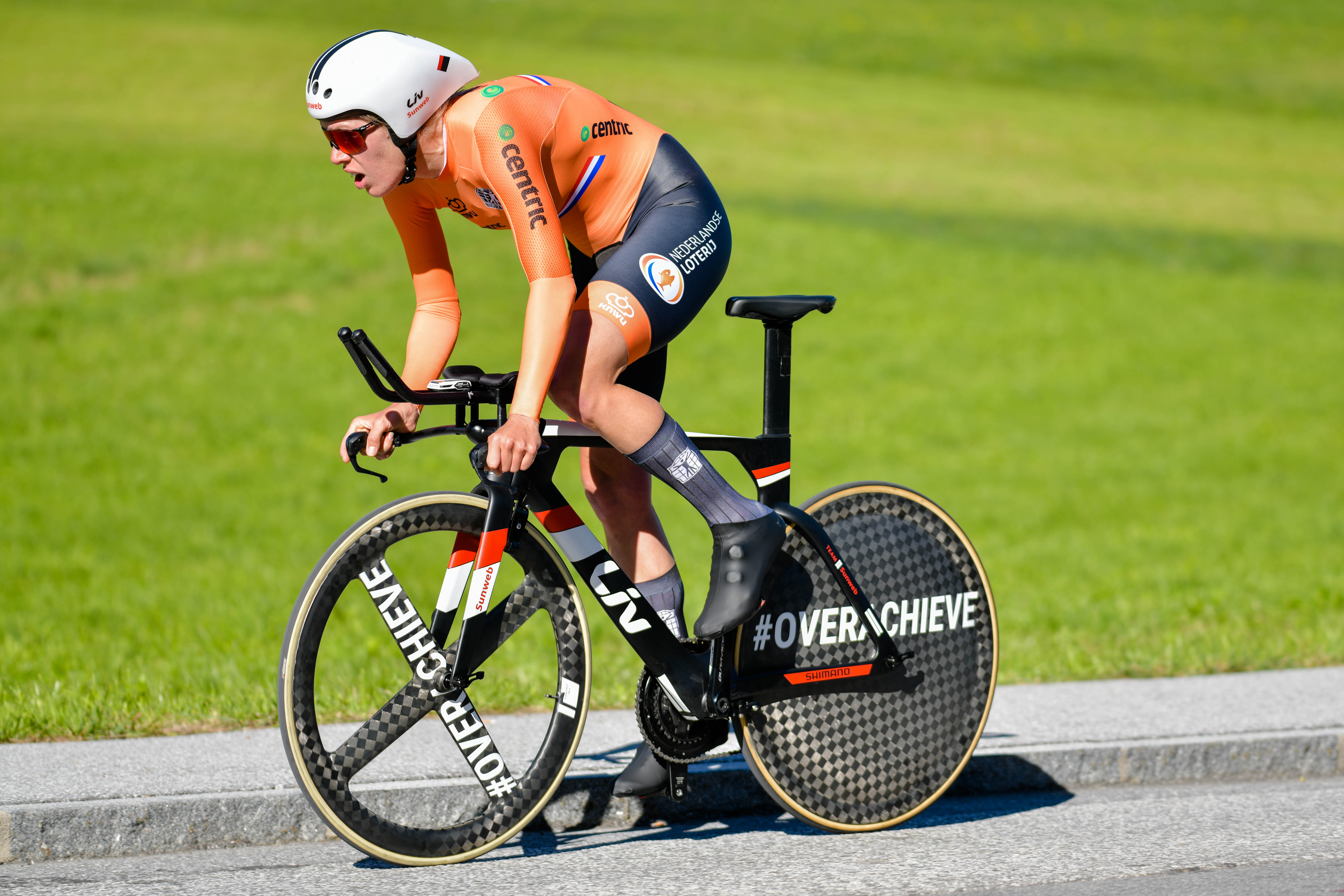 2018 UCI Road World Championships Innsbruck/Tirol Women Elite Individual Time Trial. Picture shows: Ellen van Dijk of the Netherlands